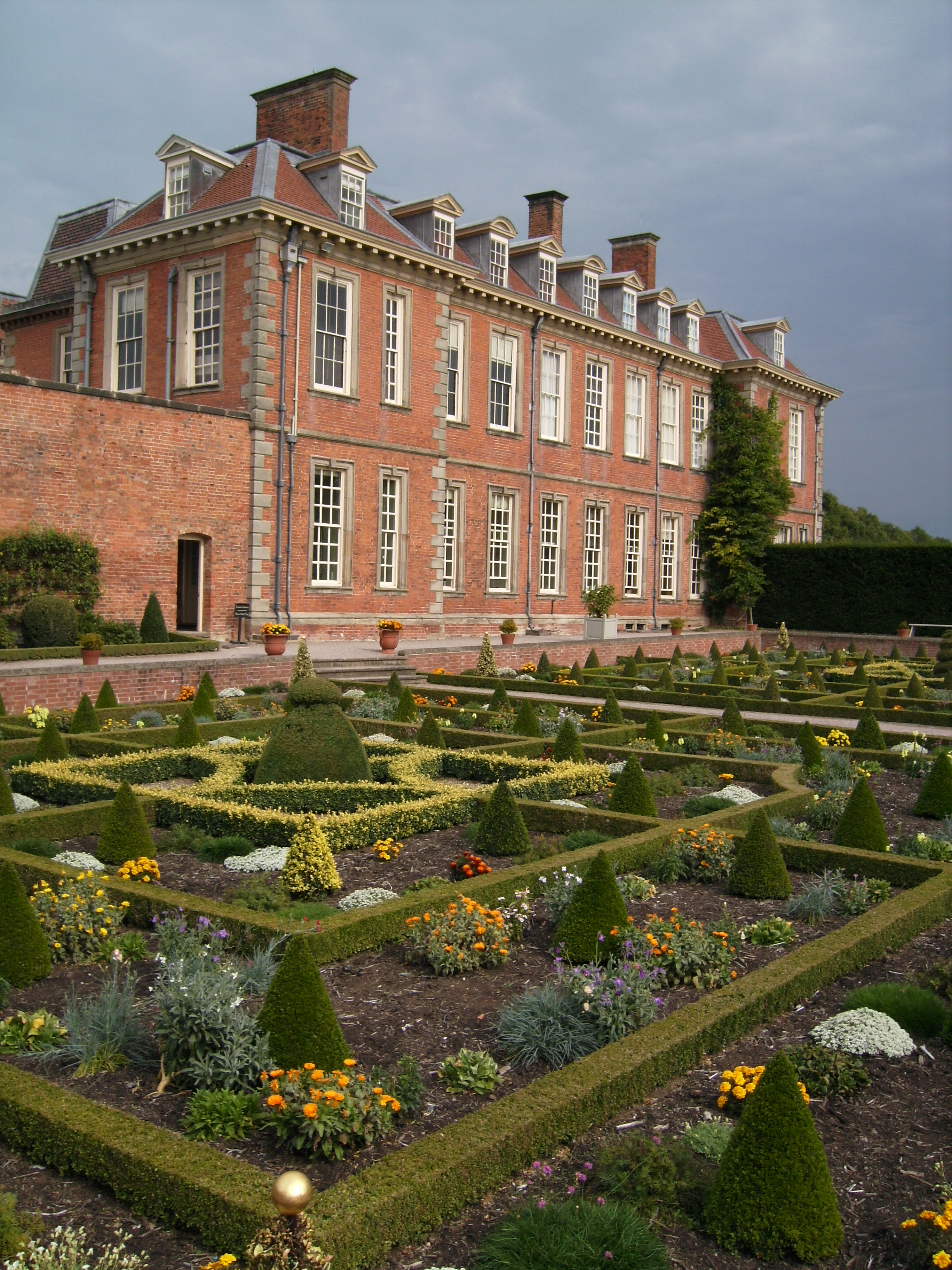 Hanbury Hall, Worcestershire, England: parterre garden viewed from terrace by long gallery.